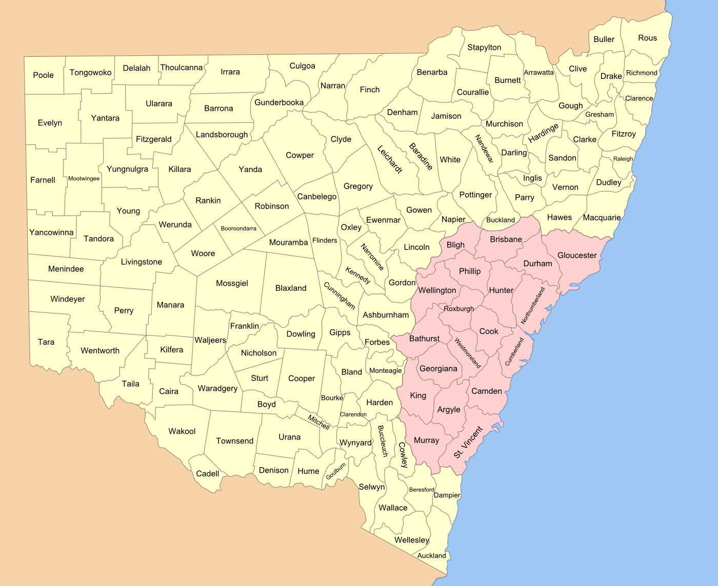 141 counties of New South Wales (before the ACT was established), made from public domain map in National Library collection, see 1888 map. The original Nineteen Counties are shown in pink.